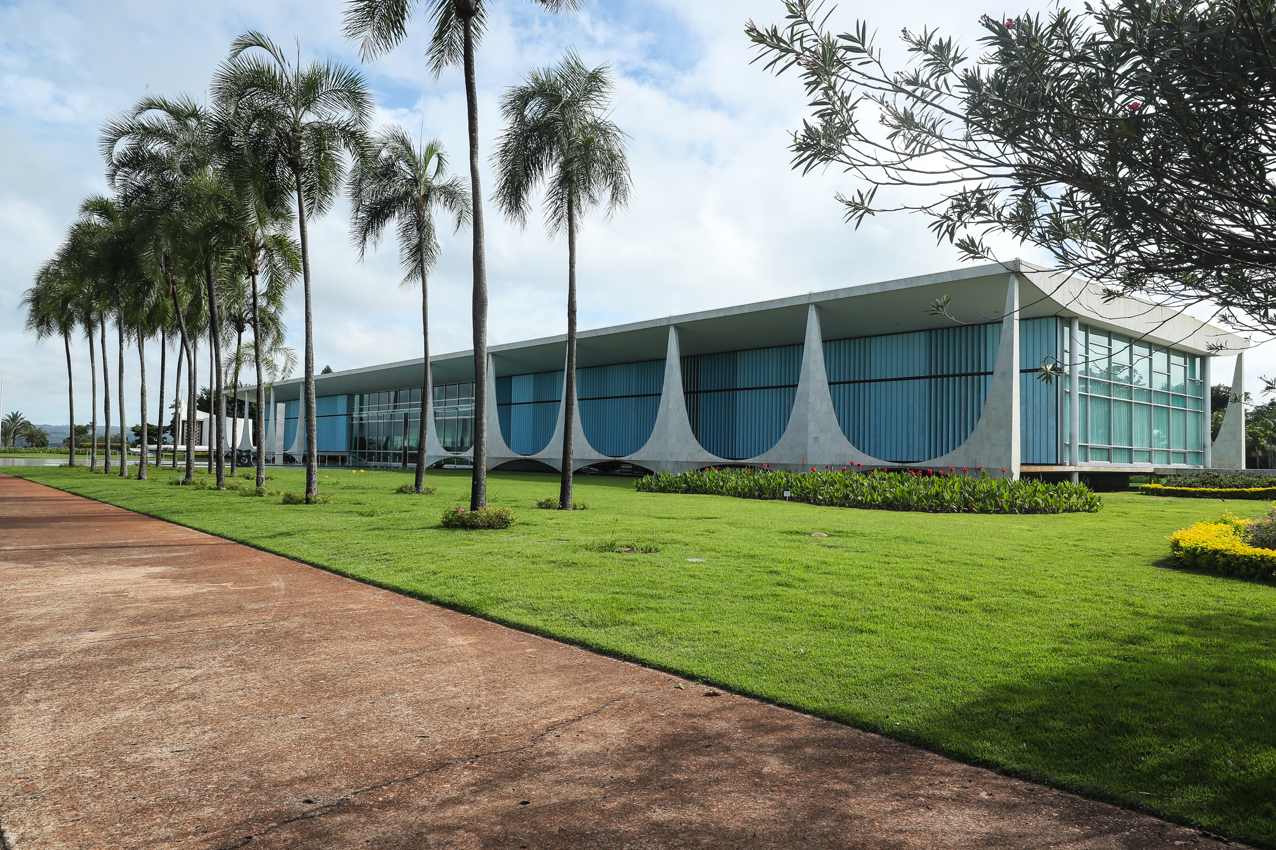 (Brasília - DF, 21/12/2019) Palácio da Alvorada. Foto: Isac Nóbrega/PR